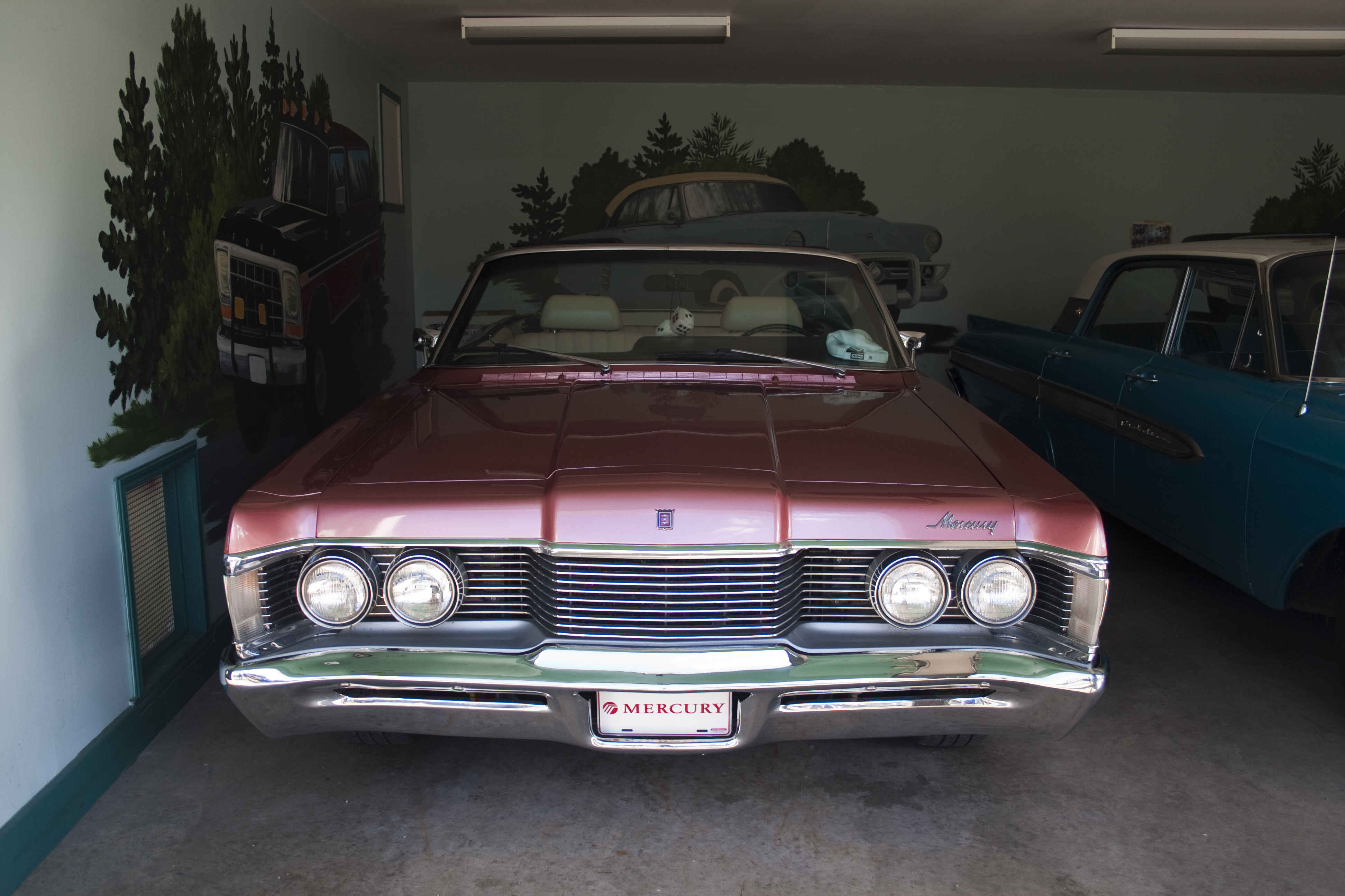 1967 Mercury Marquis